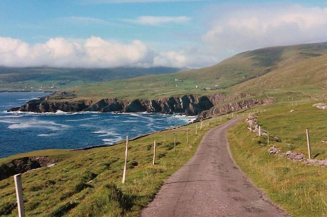 Bolus Head, west side of headland looking N. Single track road leading north along the west side of Bolus Head